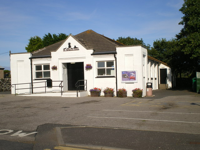 Isle of Whithorn Community Hall